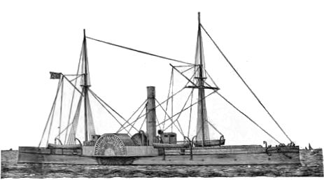 USS Tacony